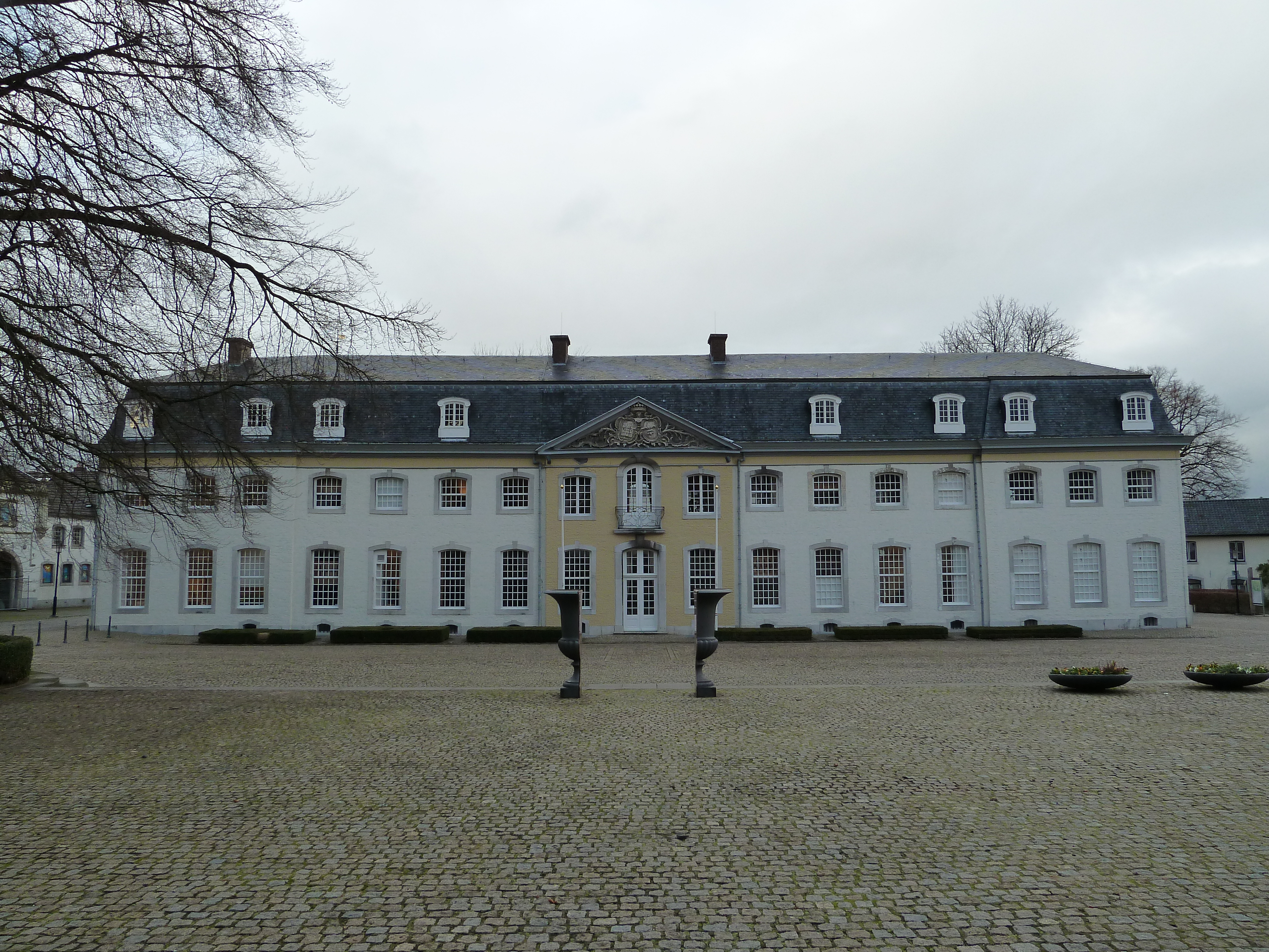 Von Clermontplein 15, Vaals, Limburg, the Netherlands